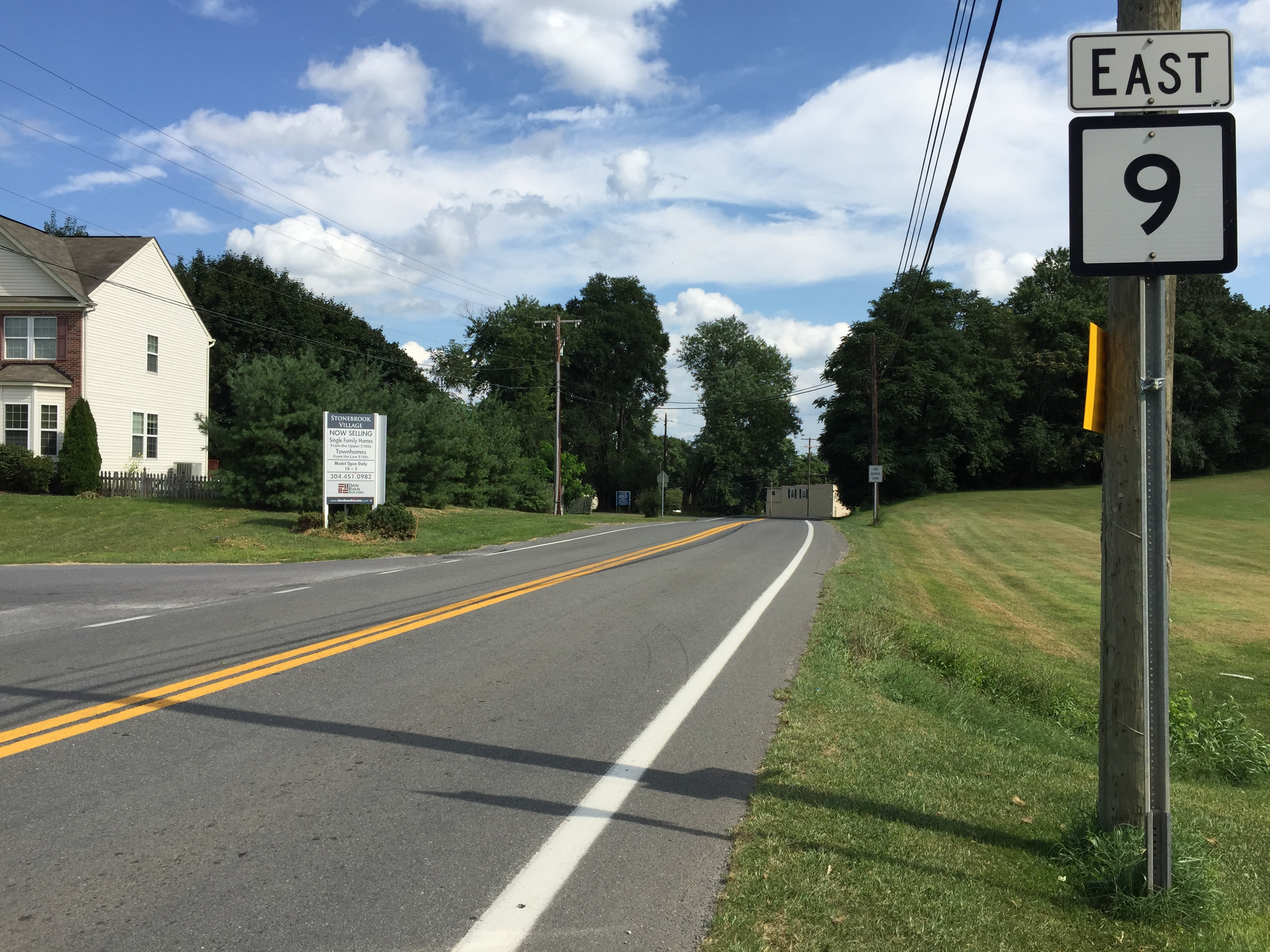 View east along West Virginia State Route 9 (Hedgesville Road) at Rumbling Rock Road in Hedgesville, Berkeley County, West Virginia